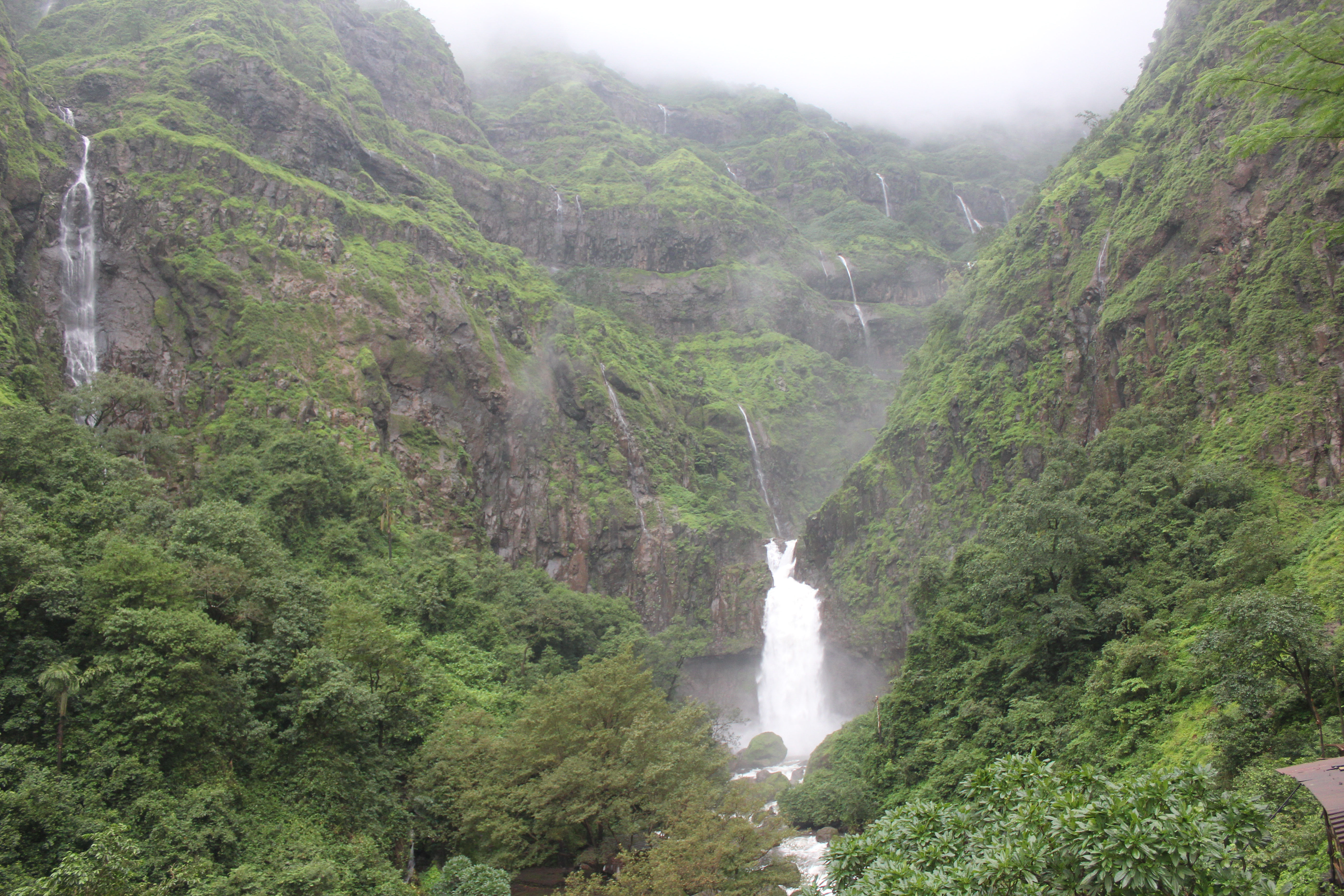 A view of the Marleshwar Waterfall